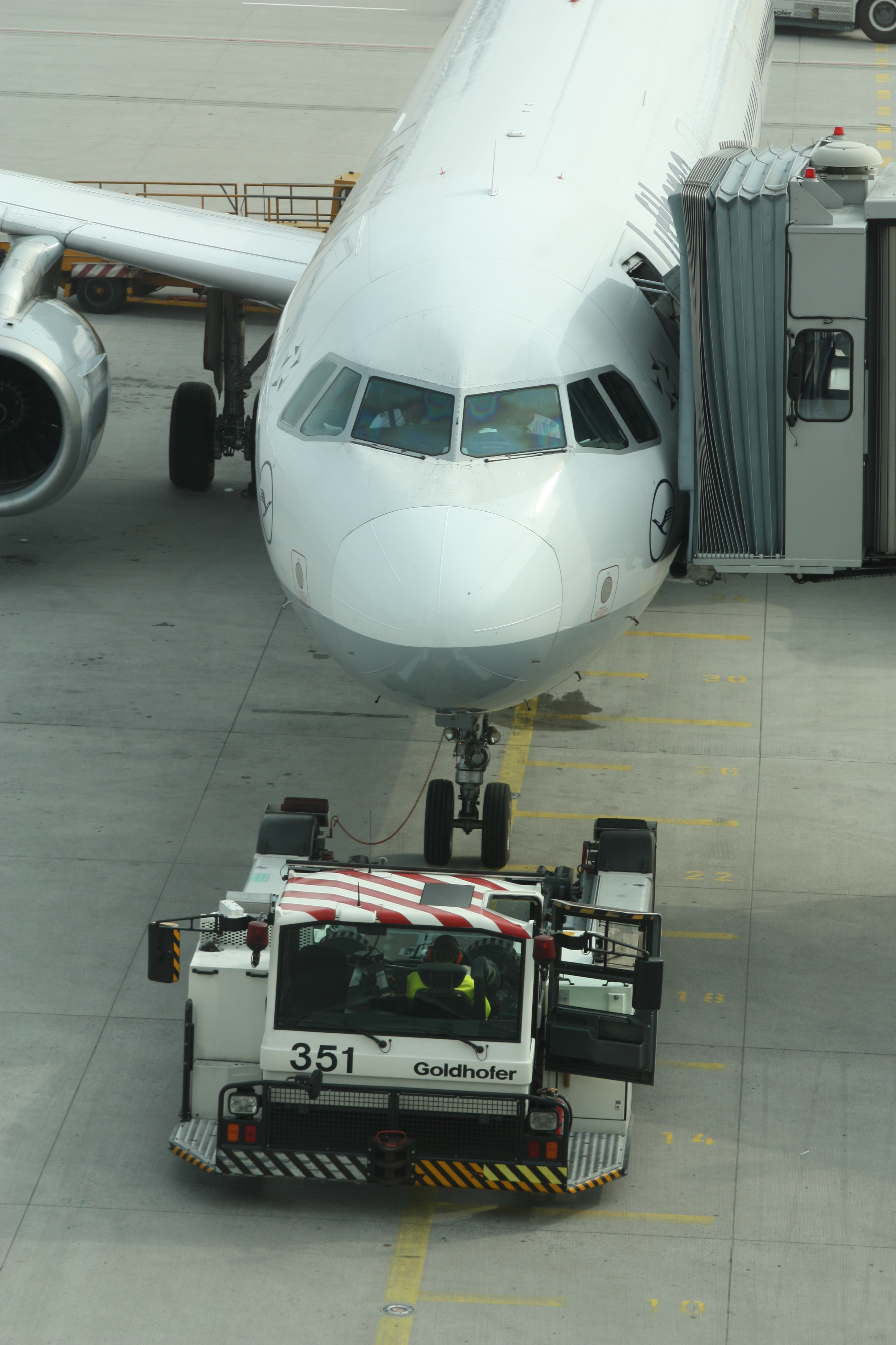 Airport Munich